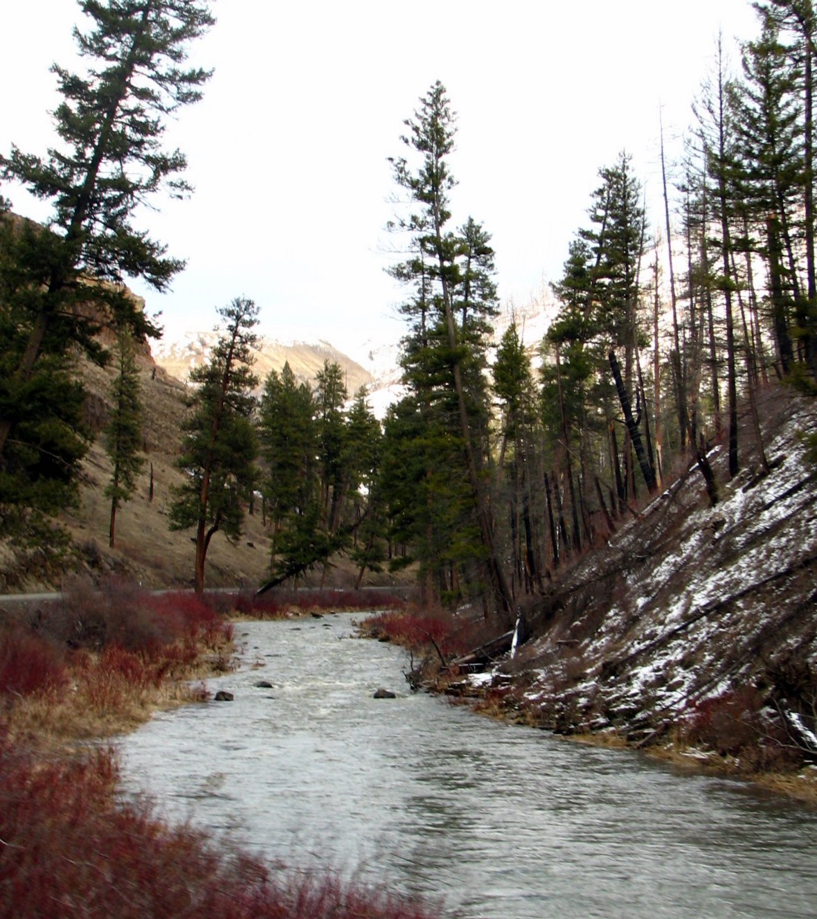 Camas Creek along US Highway 395 near Dale, Oregon, United States. This stretch of the stream and highway lie within Ukiah–Dale Forest State Scenic Corridor, an Oregon state park.